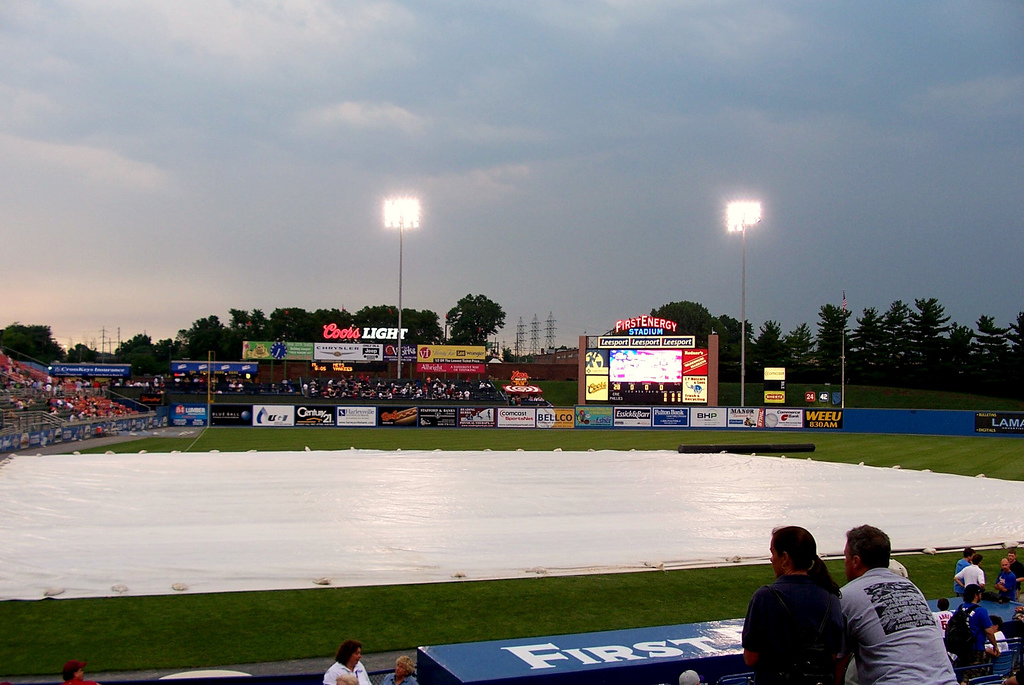 Tarp covering FirstEnergy Stadium on July 2, 2006. Image found here: [1] Photo by Beyer Weckerle